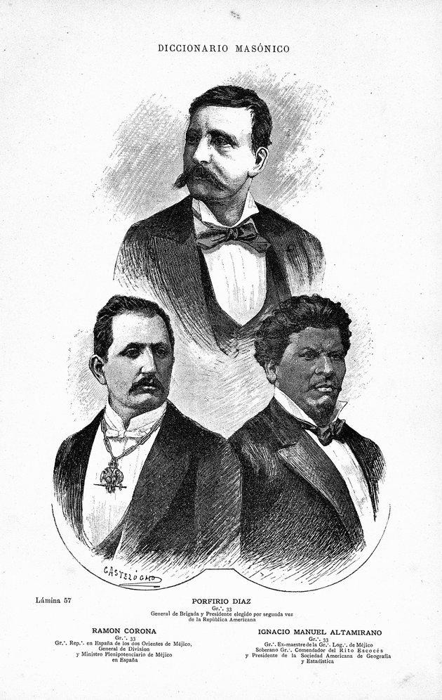 Porfirio Diaz y otros